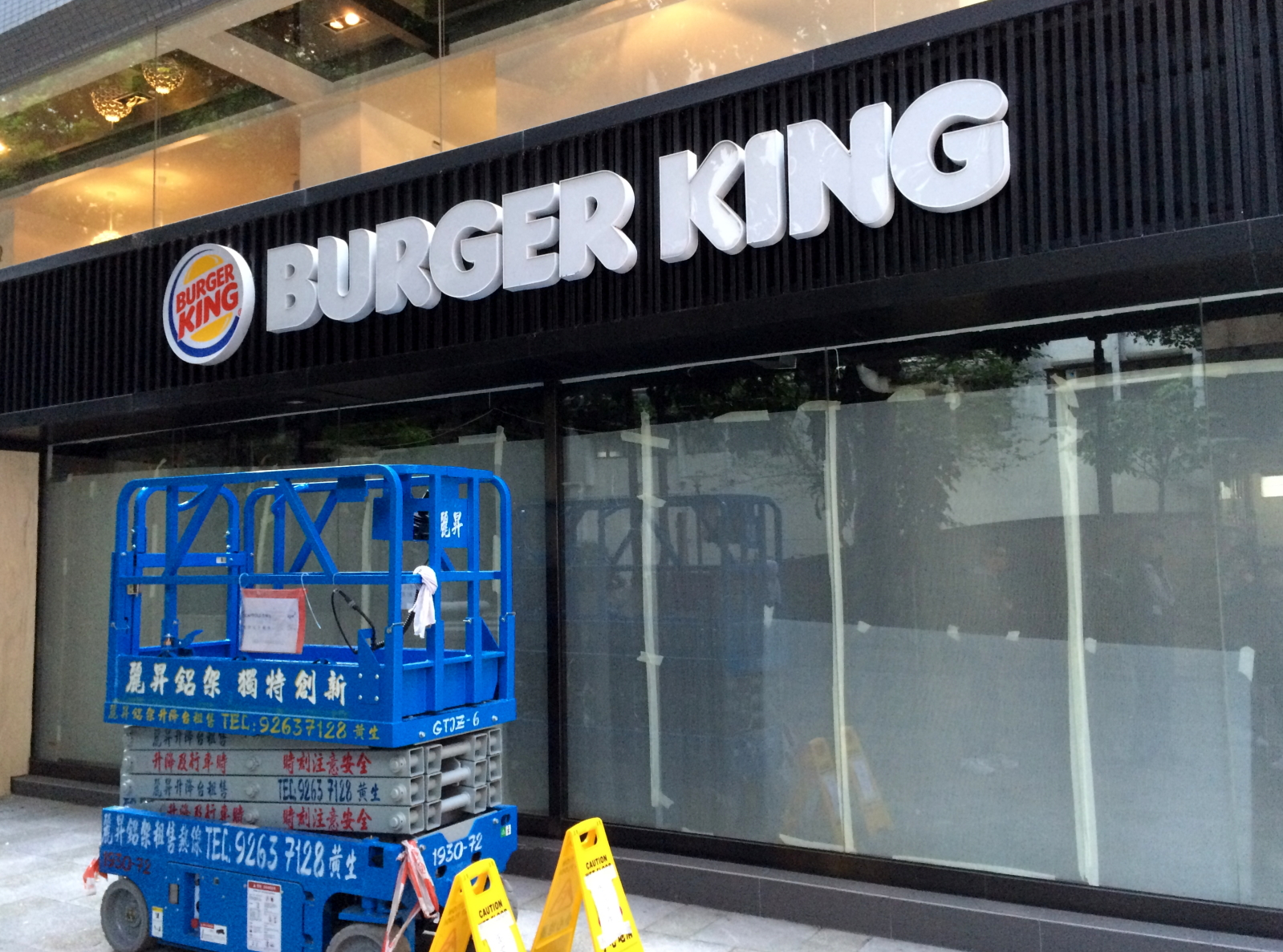 Burger King Wan Chai Store closed